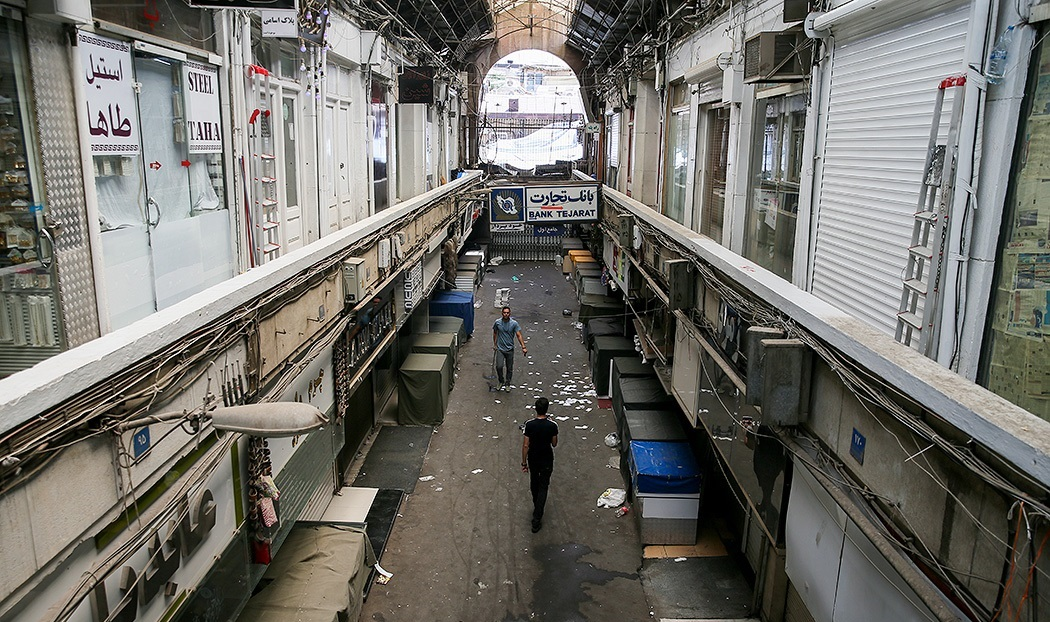 Tehran Grand Bazaar strikes and protests to the economic situation